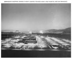 Serramonte Mall's exterior facing Seton Medical Center in the 1960s.